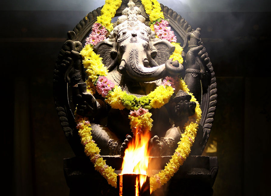 This is a statue of Lord Ganesh at Skanda Vale Ashram, Wales.